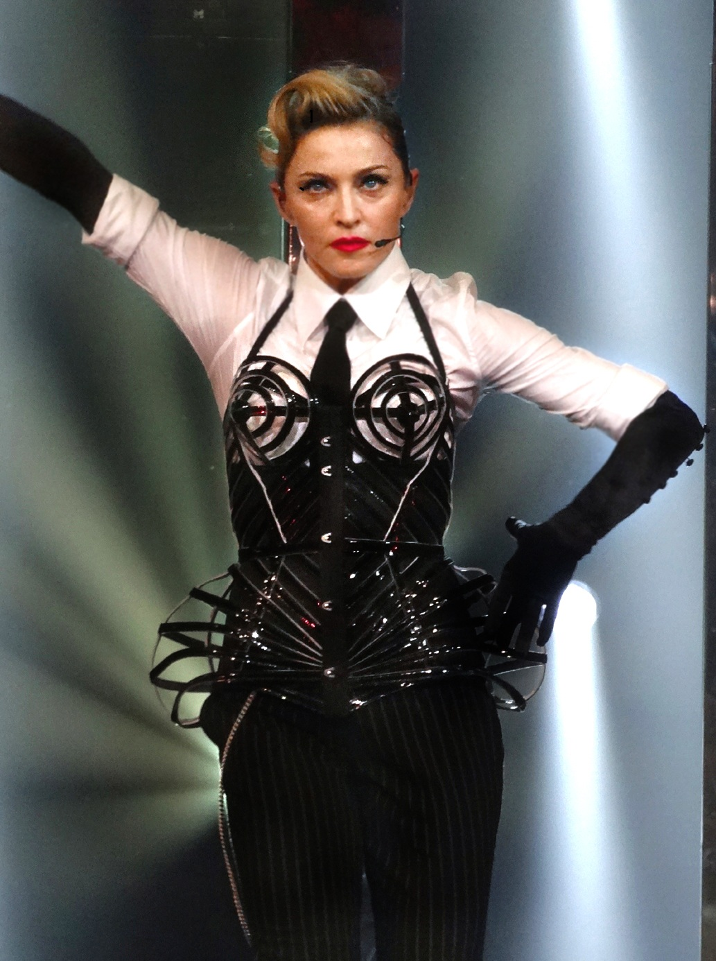 Madonna performing "Vogue" on the MDNA Tour Paris Olympia special show